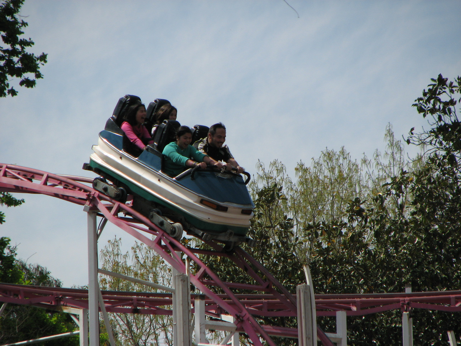 galaxy